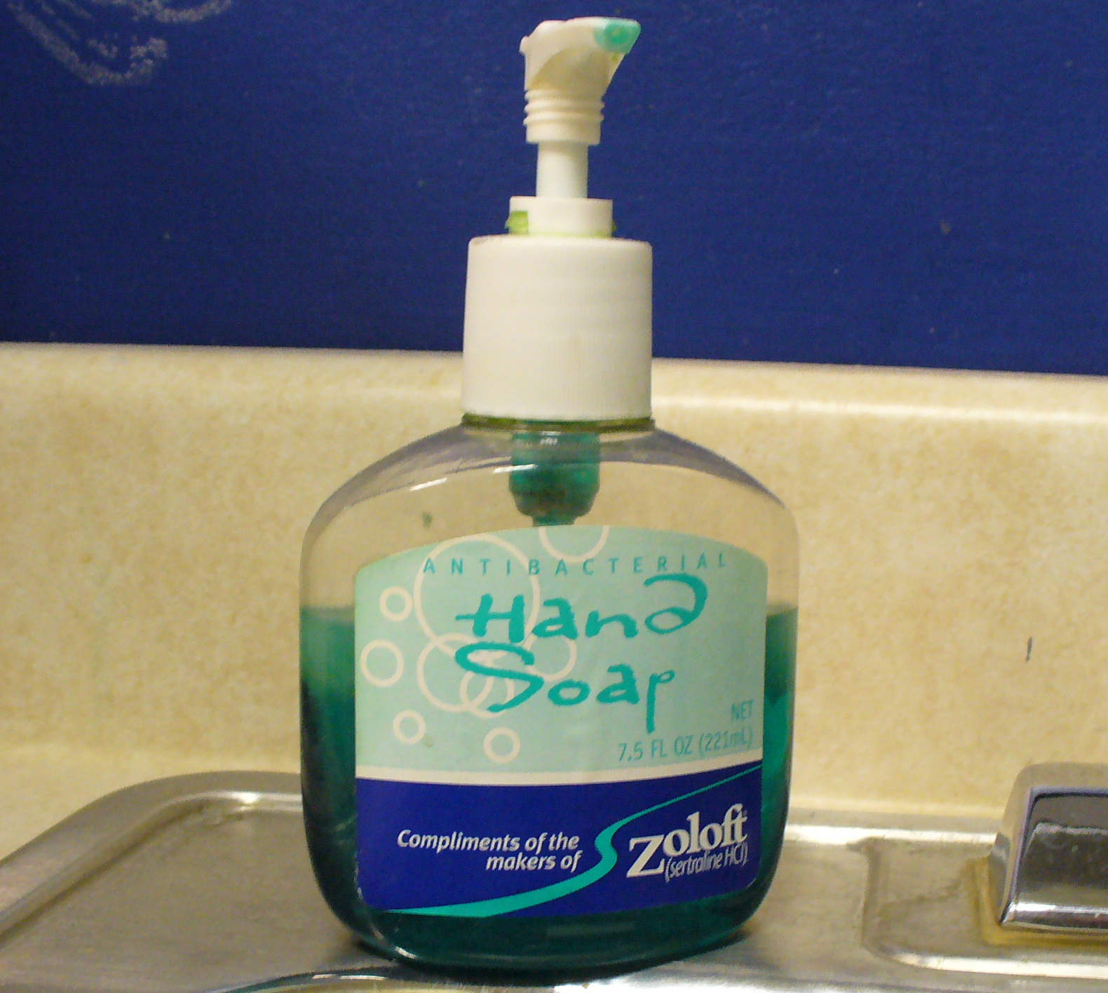 Example of promotional "freebies" given to physicians by pharmaceutical companies